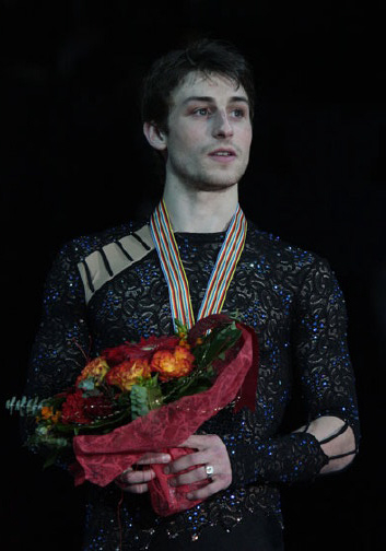 Brian Joubert during the men's medals ceremony at the 2009 European Championships.